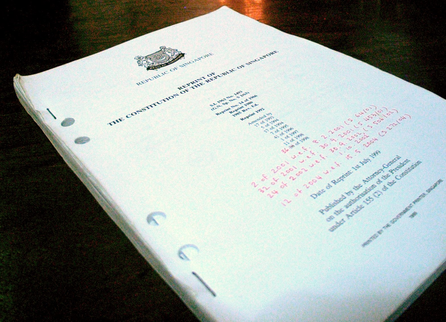 Title page of the 1999 Reprint of the Constitution of Singapore.